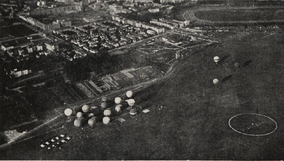 Gordon Bennett Cup 1934